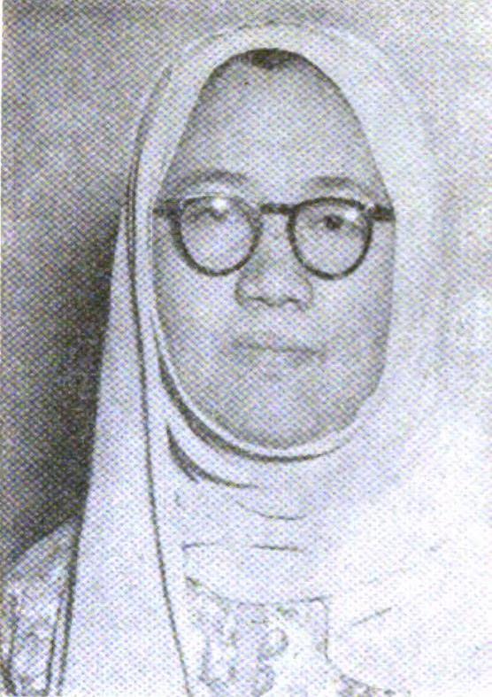 Portrait of Rasuna Said as the member of the People's Representative Council in 1954.